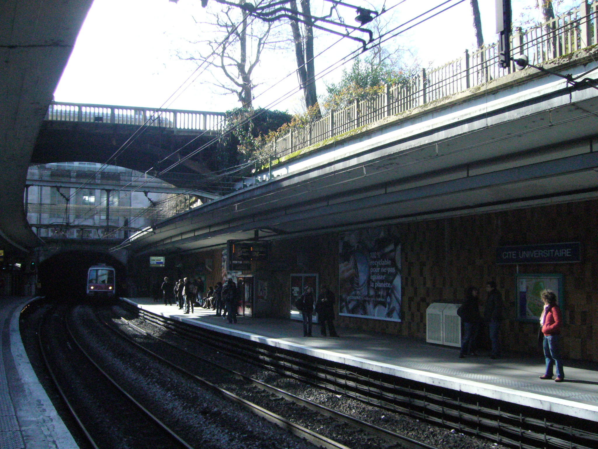 Train station of Cité universitaire.